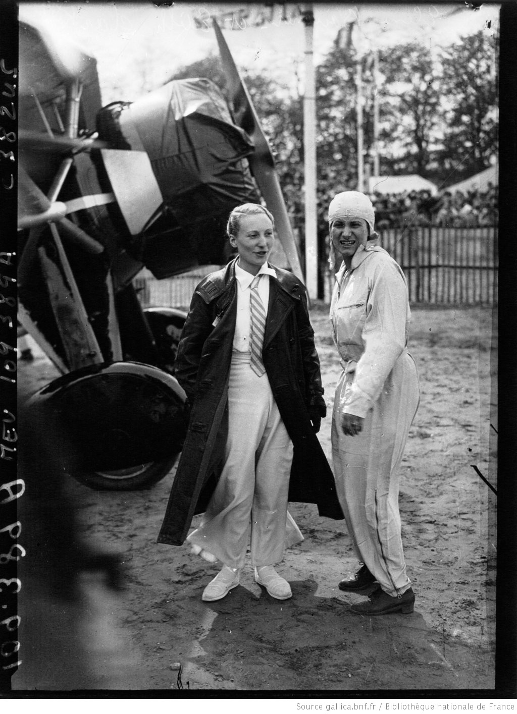 Edith Clark and Helene Boucher at an aviation event